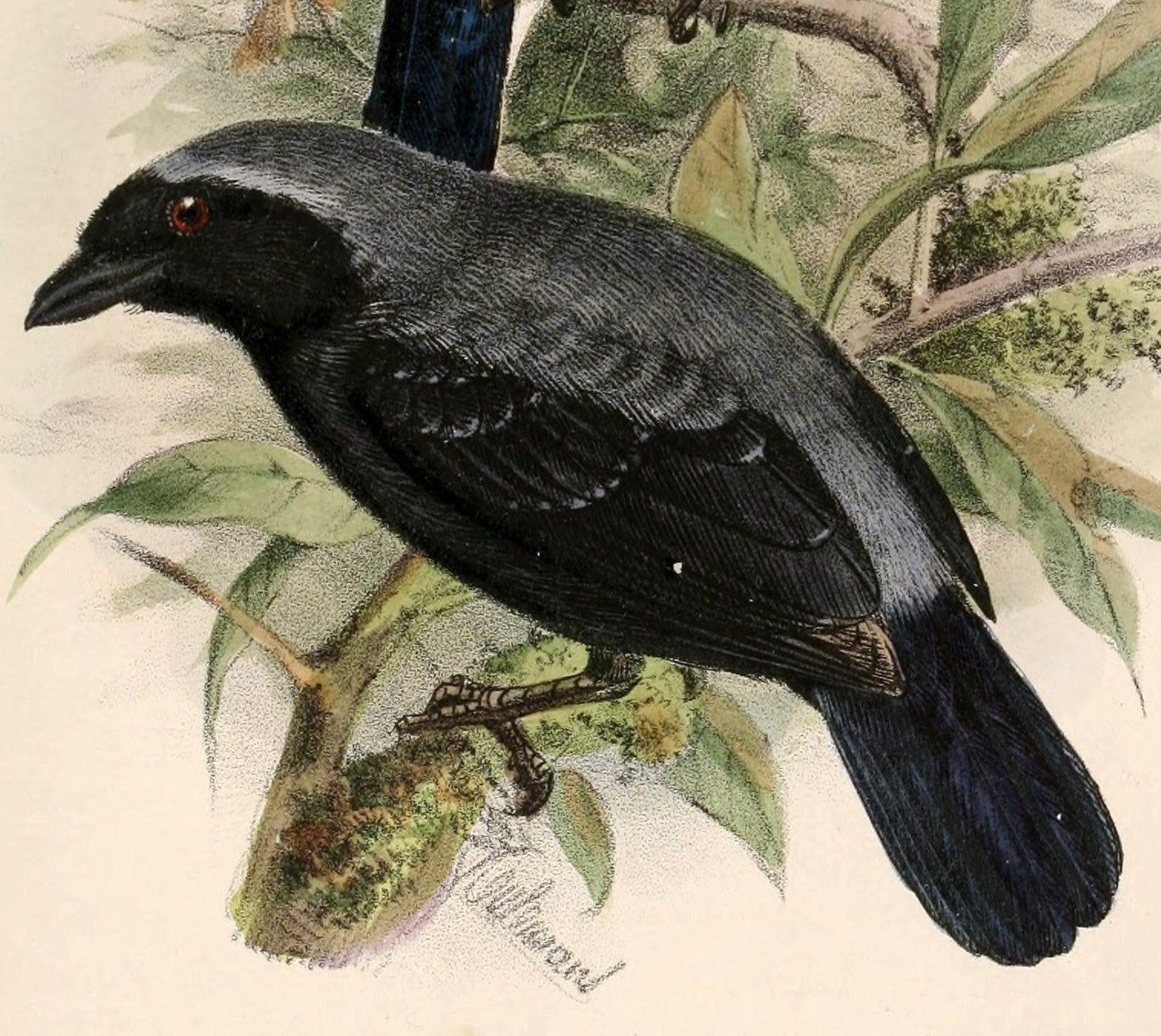 « Nigrita emiliae » = Nigrita canicapillus emiliae (Subspecies of Grey-headed Nigrita)